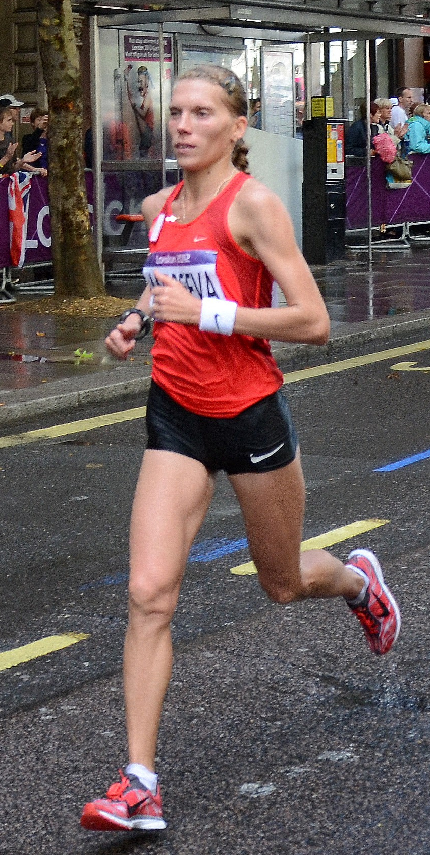 Iuliia Andreeva (Kyrgyzstan) in the marathon (w) at the Olympic Games 2012